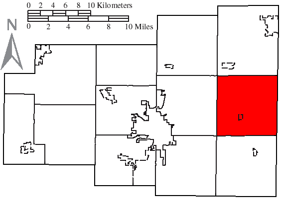 Made by the US Census and modified by myself to highlight the township